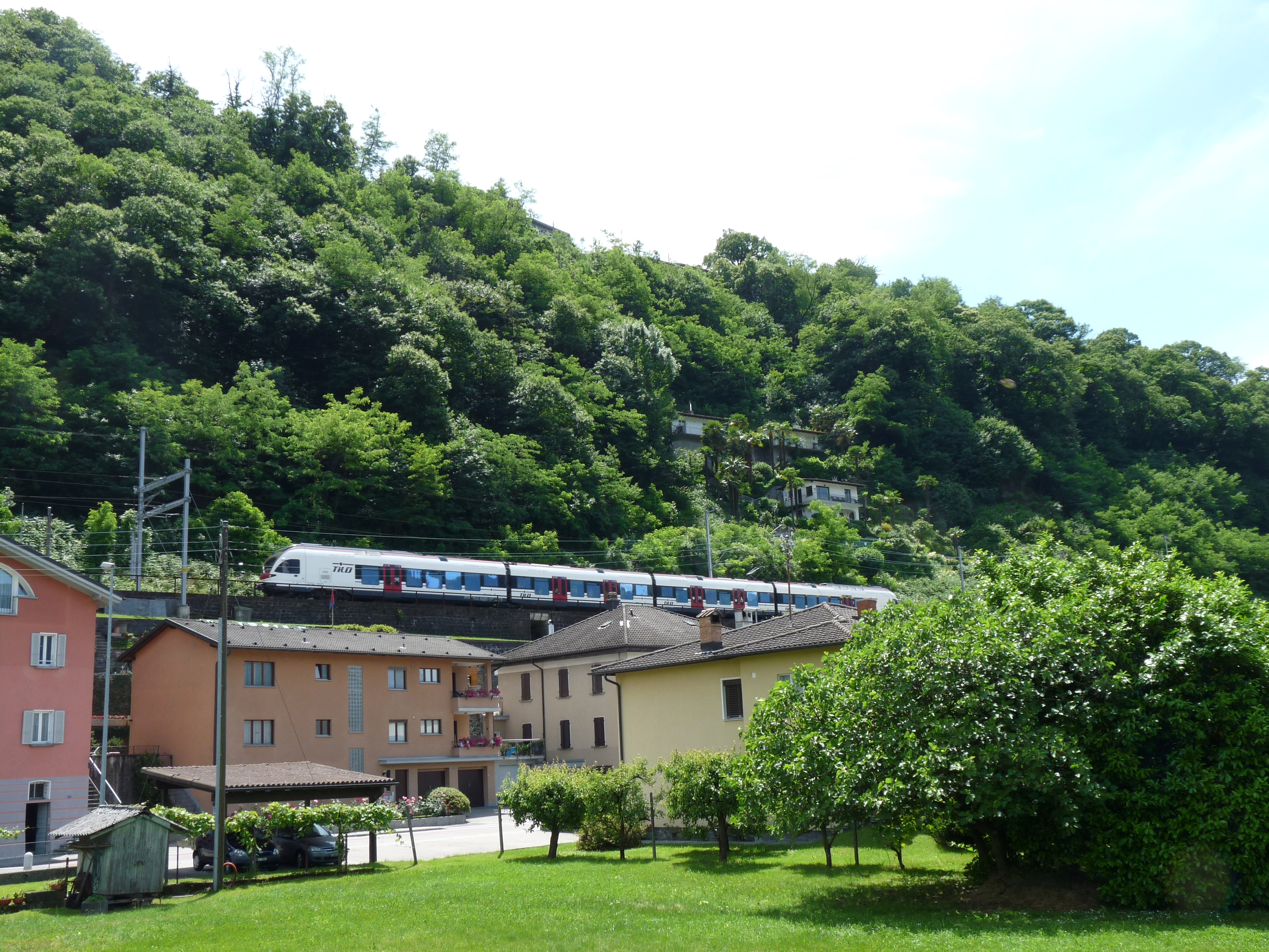 A 'TILO' train near Magadino, Ticino, Switzerland